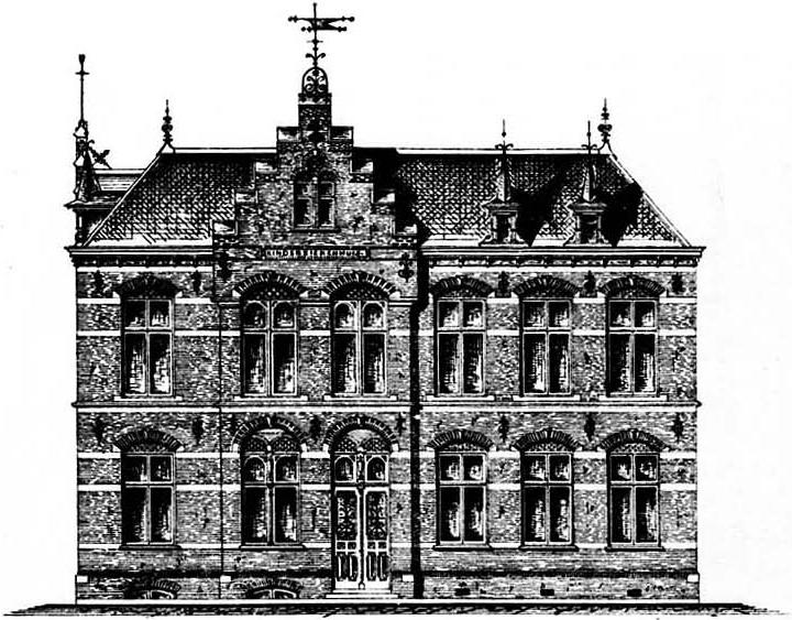 Design for a Children's Hospital, St. Jansstraat, Groningen, front elevation.